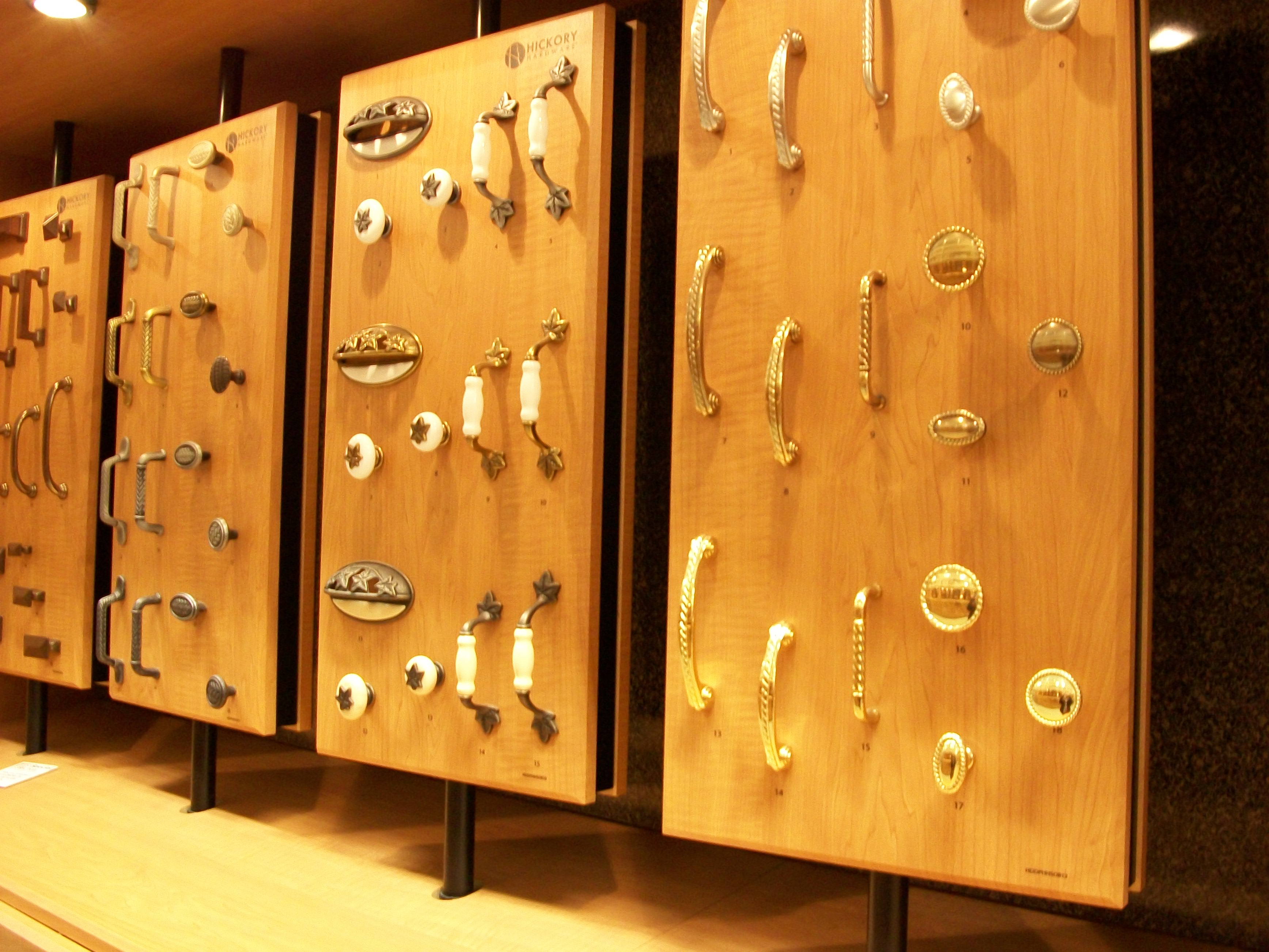 Cabinet hardware on display in a home store. For use in article "Kitchen cabinets"